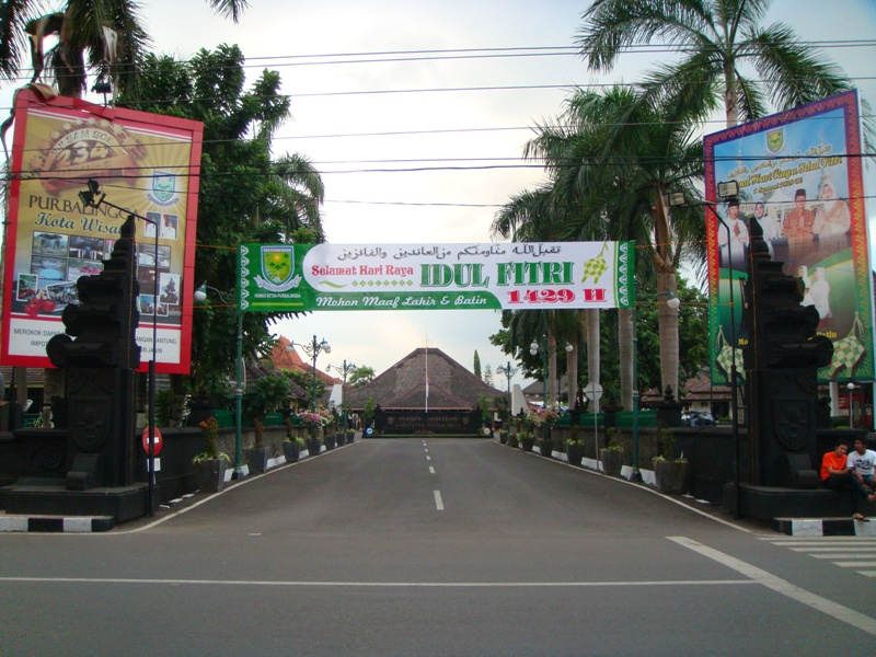 "Pendopo Kabupaten Purbalingga" - Office of the Regent of the Purbalingga Regency, Central Java Province, Indonesia